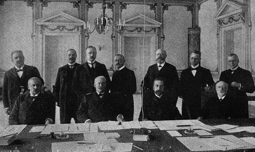 Dissolution of the union between Norway and Sweden in 1905. Norwegian and Swedish delegates met in the Swedish city of Karlstad to negotiate the terms of the dissolution. In the picture from the left: Karl Gustaf Staaf (Sweden), Fredrik Wachtmeister (Sweden), secretary Berg, Hjalmar Hammarskjöld (Sweden), Christian Lundeberg (Sweden), secretary Hellner, Christian Michelsen. (Norway), Jørgen Løvland (Norway), B. Vogt (Norway), C. C. Berner (Norway), secretary Andreas Urbye.